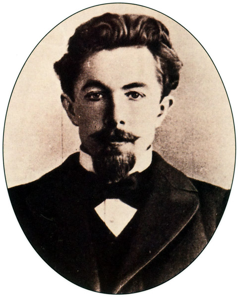 Mikhail Semyonovich Tsvet in 1901